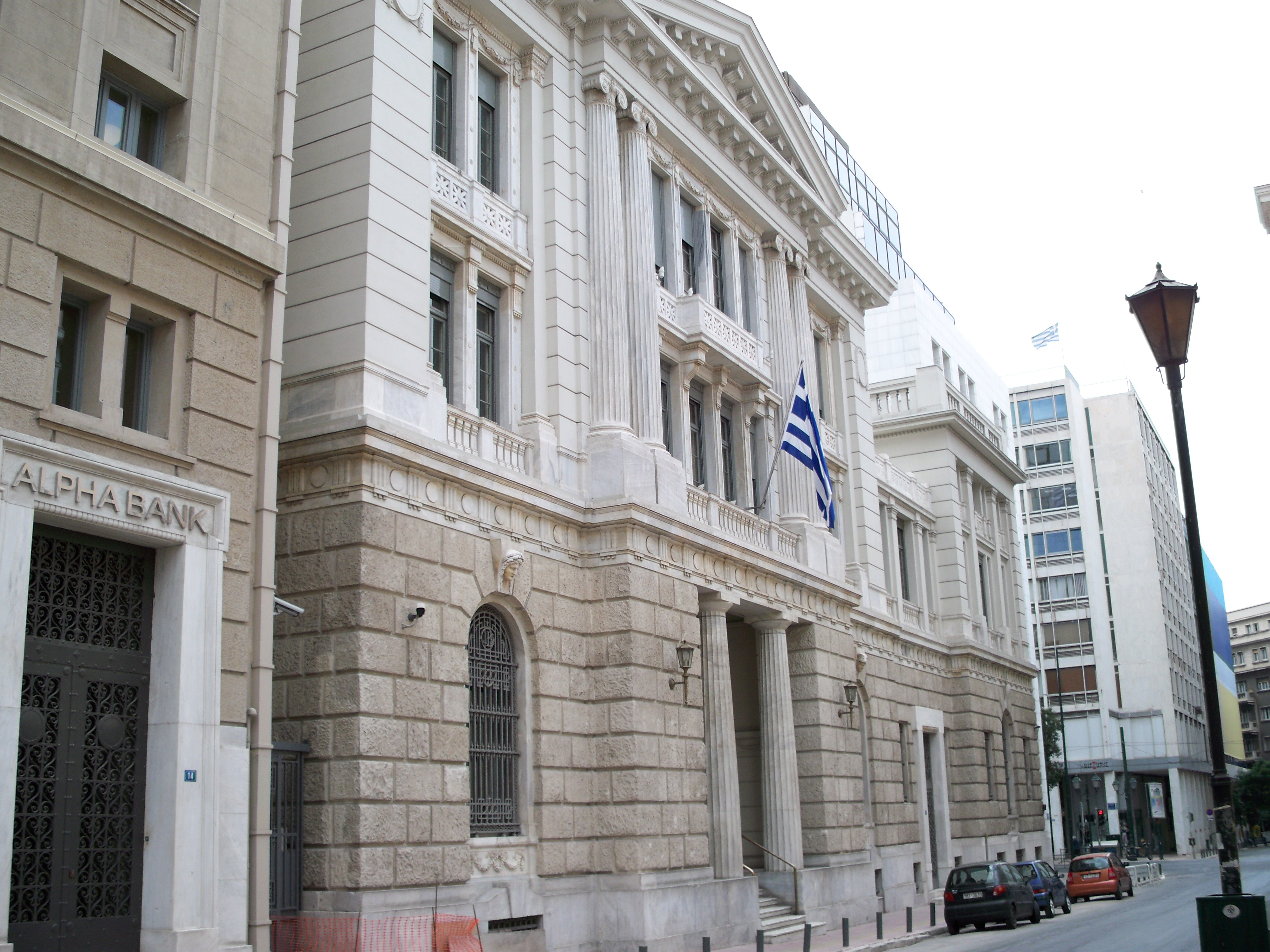 Part of The main building complex of the Alpha Bank, Athens, Greece. Building erected in 1911, architect died in 1937.